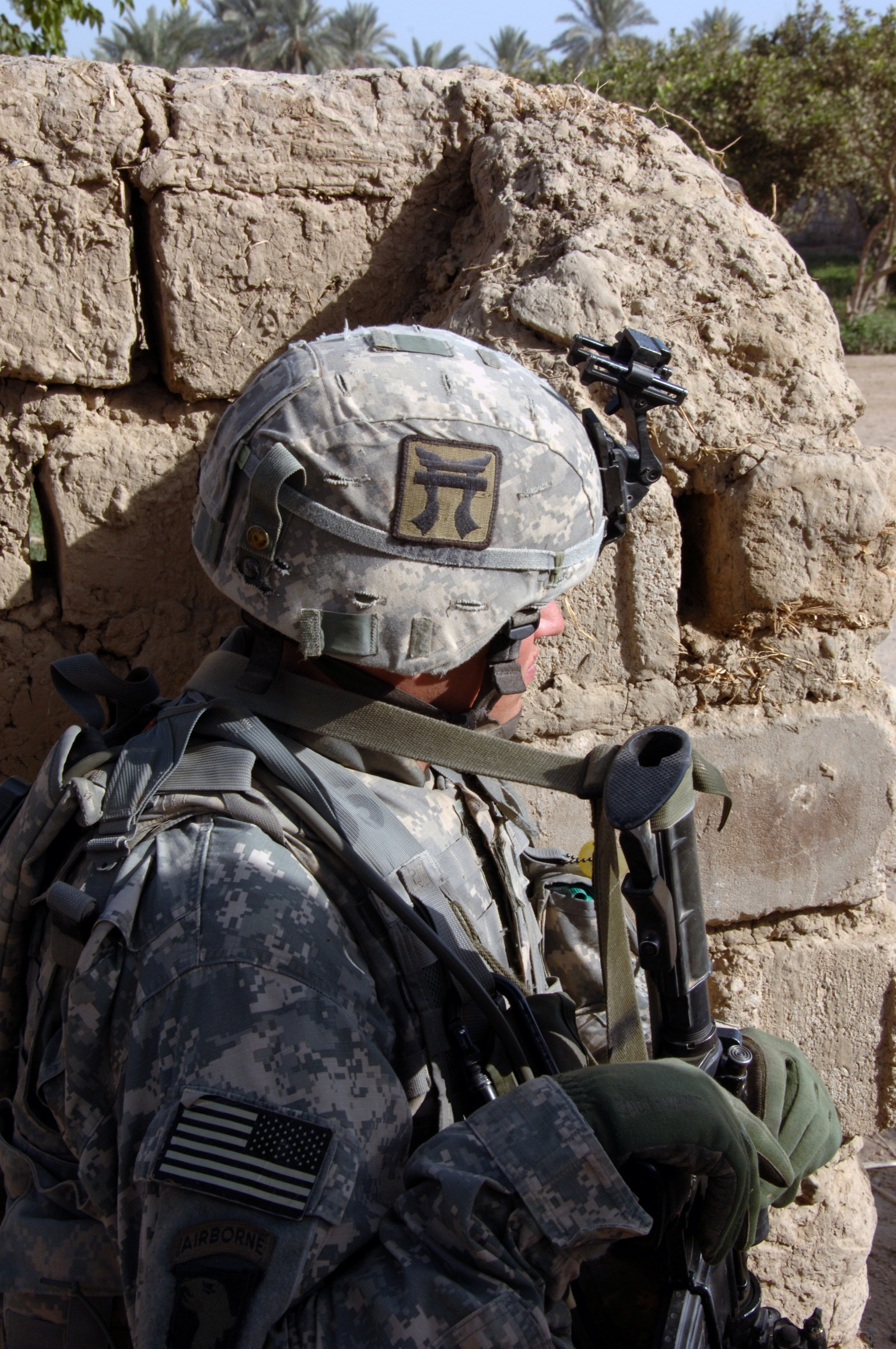 101st Airborne Soldier takes cover behind a wall.